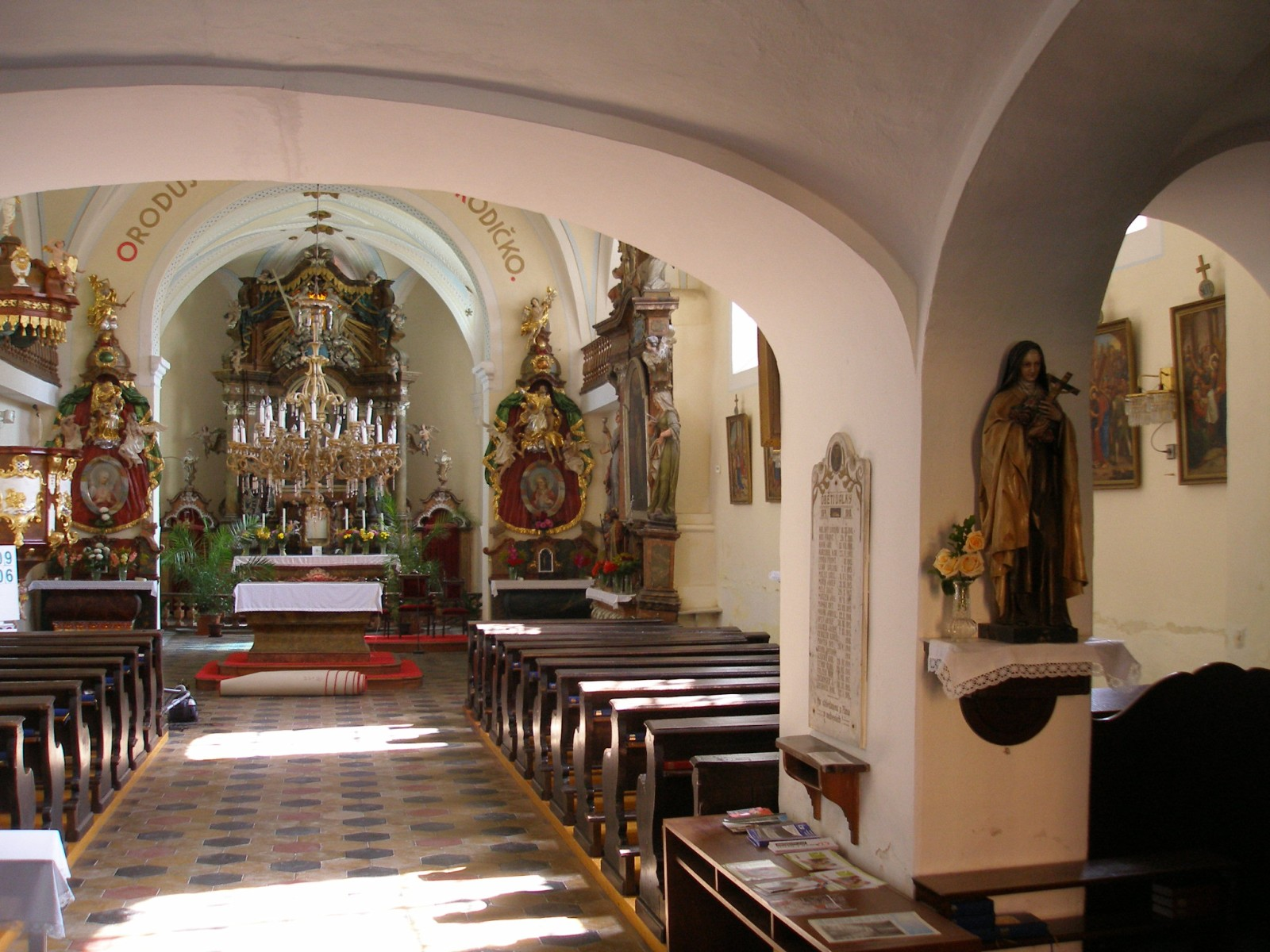 Church of Nové Strašecí - Interieur, Czechia